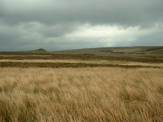 The Migneint. Looking south east. The tip of Arenig Fawr [I think] is just showing in the far distance. The Migneint wilderness stretches for miles, with few signs of mankind visible [apart from sheep].